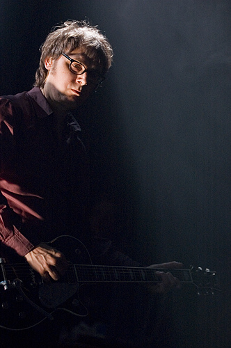 Raymond Geerts